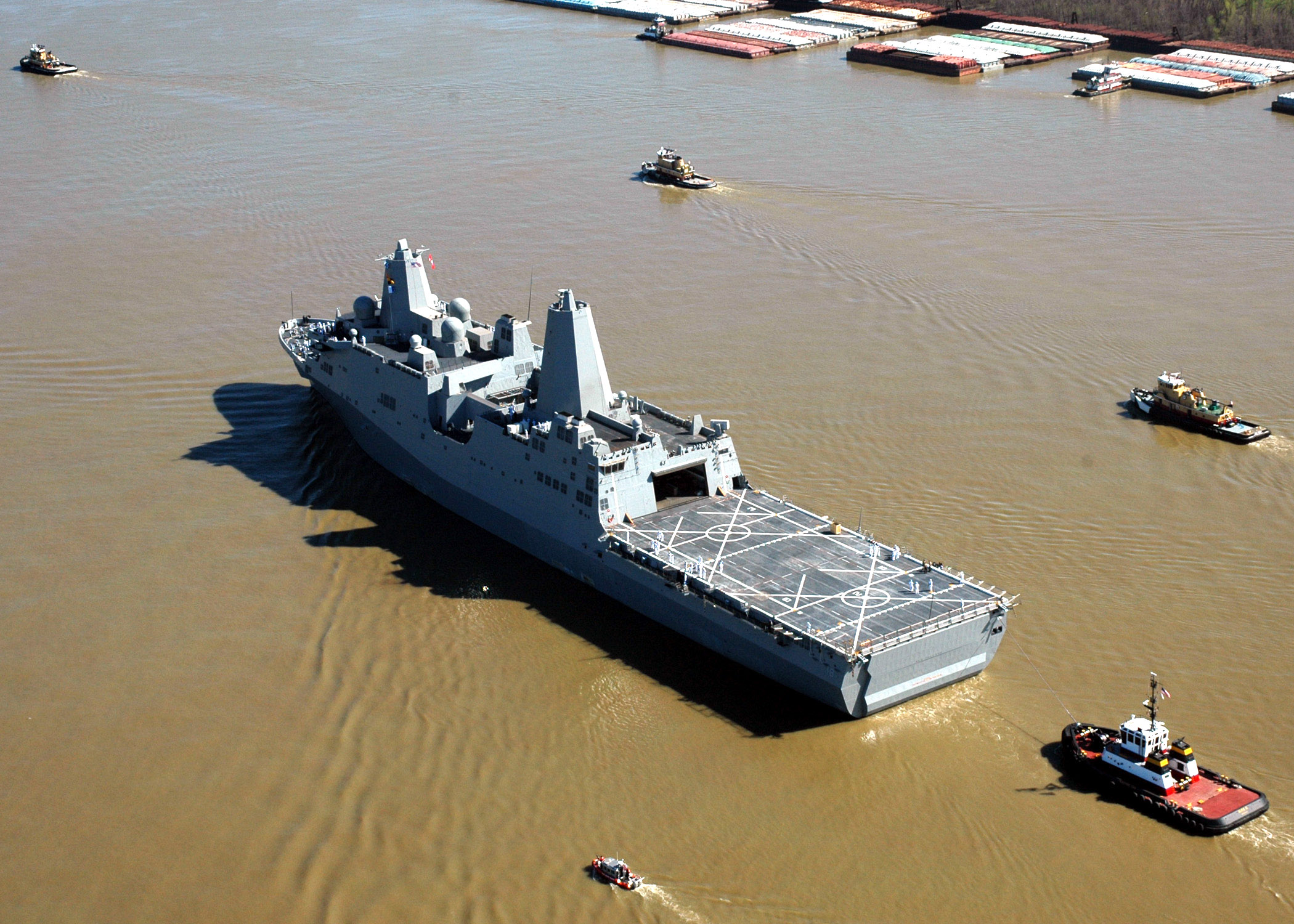 NEW ORLEANS (March 5, 2007) - Pre-Commissioning Unit New Orleans (LPD 18) leaves Avondale Shipyard and transits up the Mississippi River toward her commissioning site in New Orleans. The ship is scheduled to be commissioned in a ceremony March 10, 2007. U.S. Navy photo by Mass Communication Specialist 1st Class Shawn Graham (RELEASED)